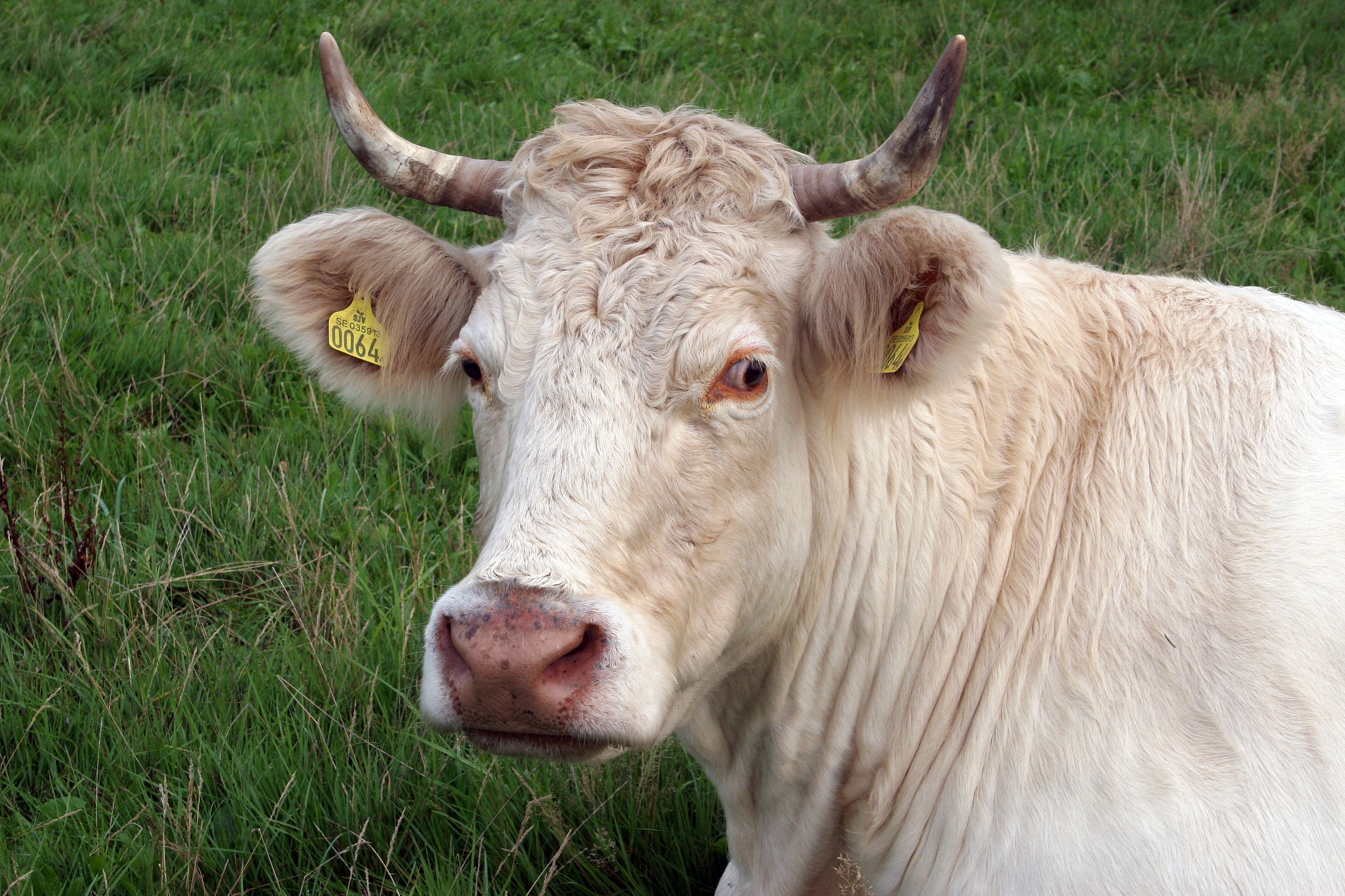 A cow in Scania, Sweden.